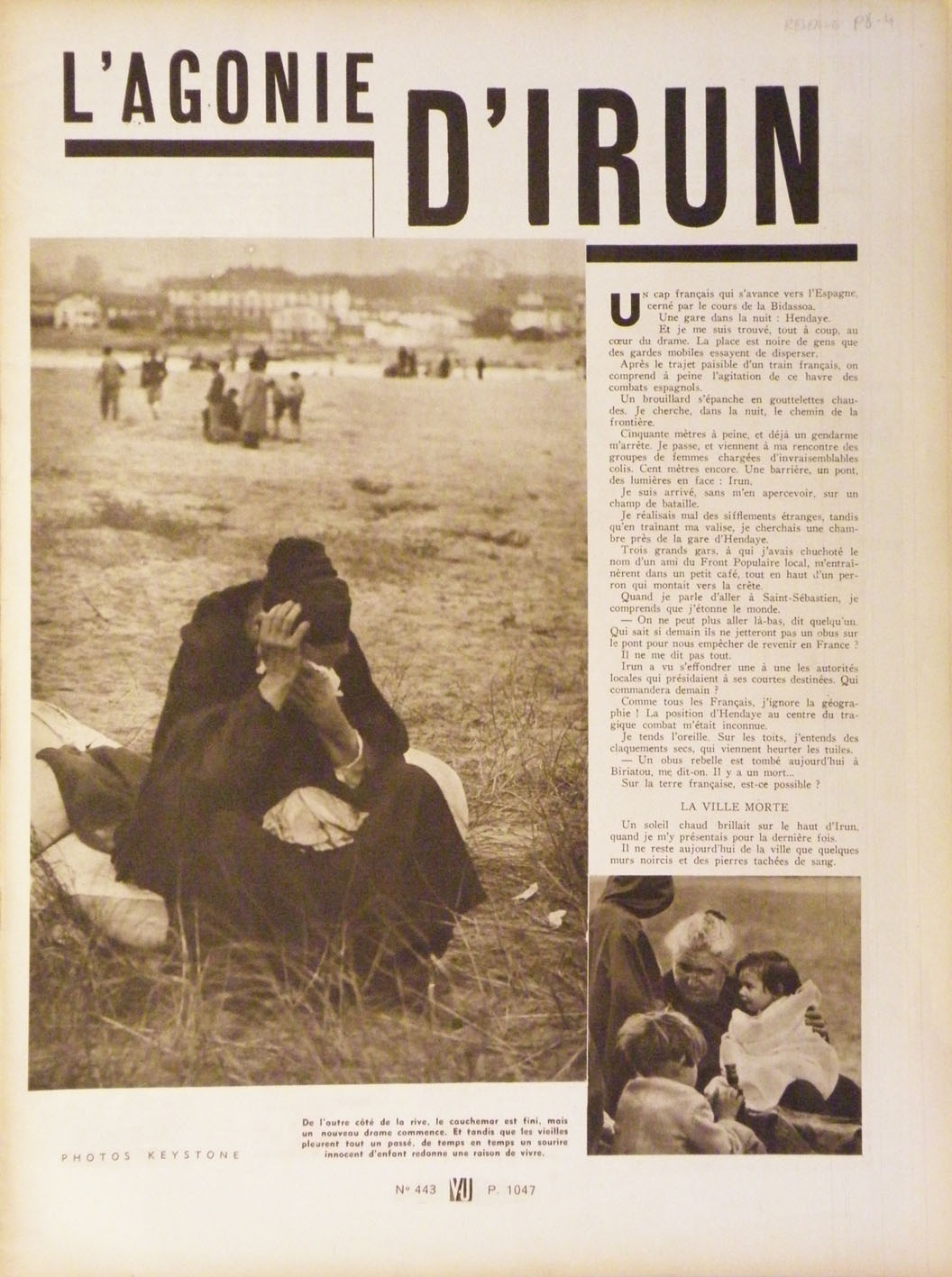 Elder woman at Hendaia, fleeing from Irun about to fall to the Spanish Nationalist troops, 4 September 1936